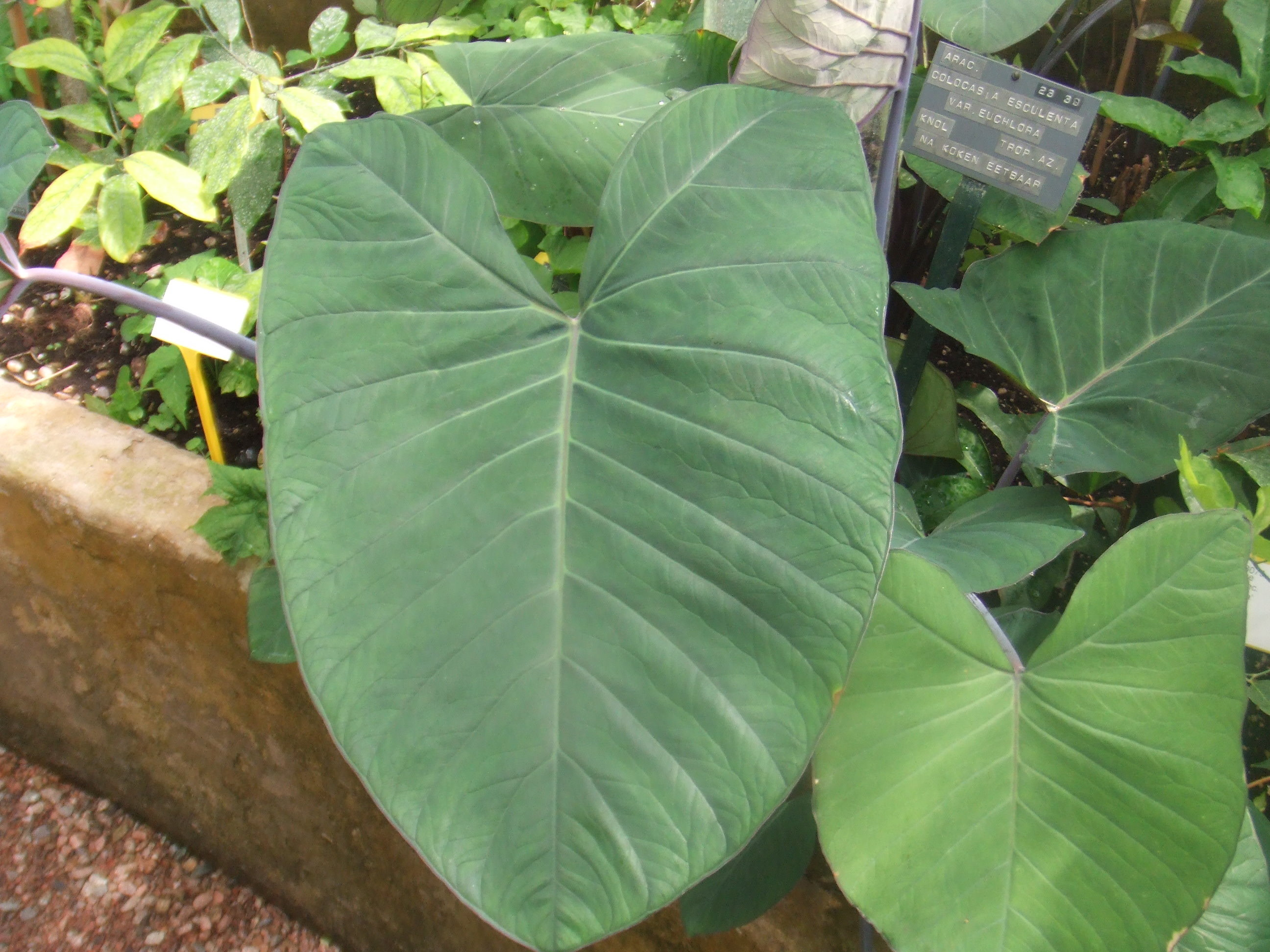 Colocasia esculenta, picture taken at the Botanische tuin TU Delft in Delft, The Netherlands